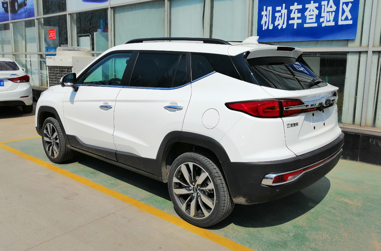 JAC Refine S4 photographed in Hefei, Anhui province, China.